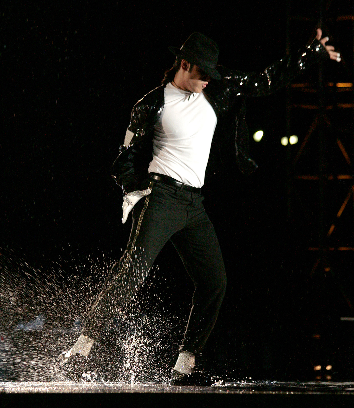 Suleman Mirza (Signature) at the Save the World Awards 2009 (Zwentendorf Nuclear Power Plant, Lower Austria).